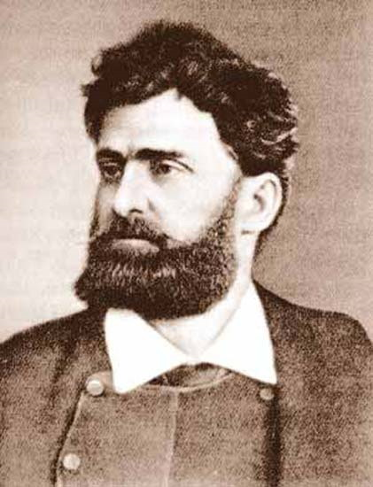 Michael Valentinovich Lentovsky (1843—1906), the Russian actor of drama theatre and operetta, the director.